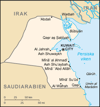 map of Kuwait (CIA)